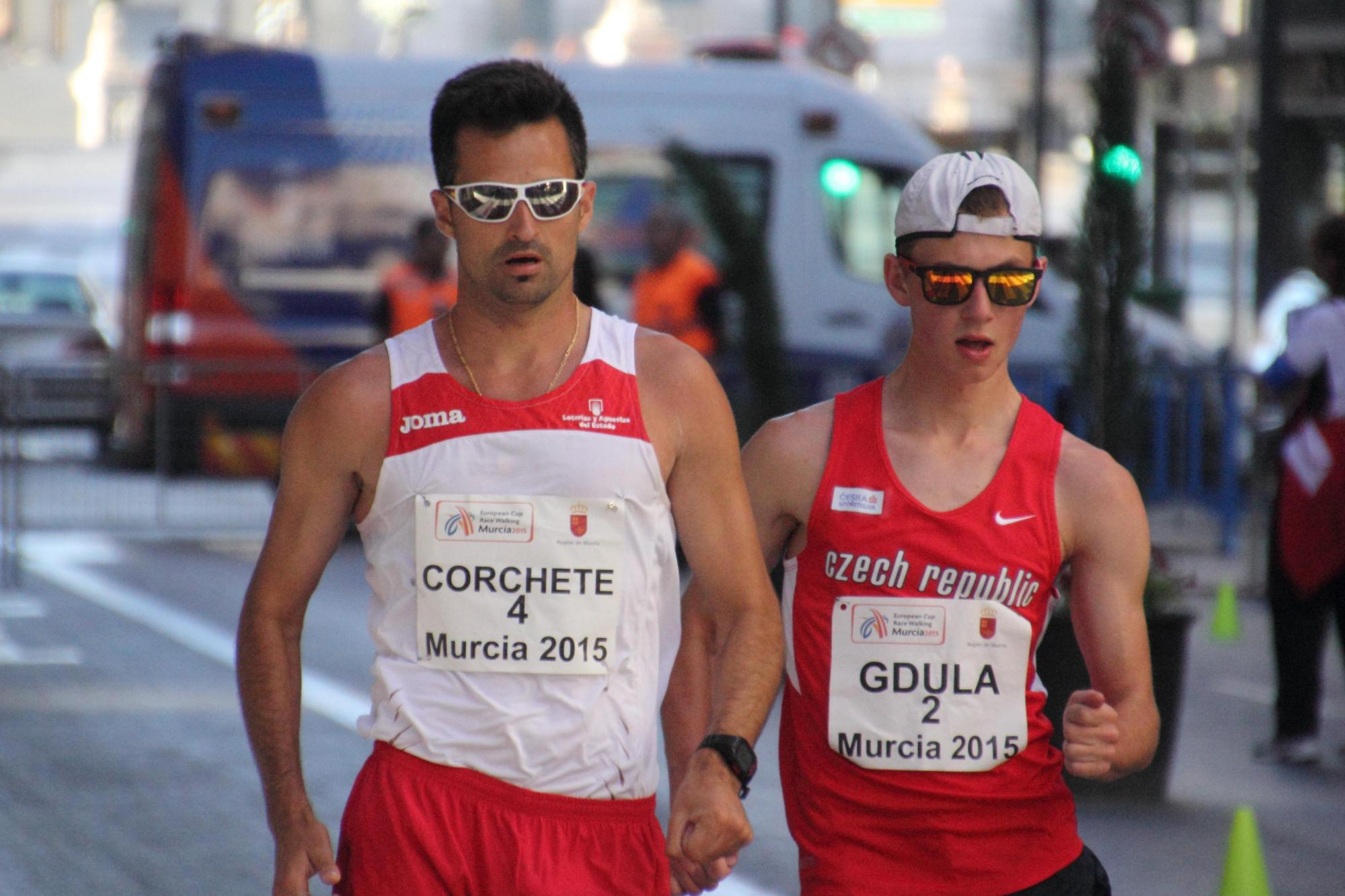 4-Luís Manuel Corchete (ESP) and 2-Lukáš Gdula (CZE) in the European Cup Race Walking 2015 (Murcia, Spain).